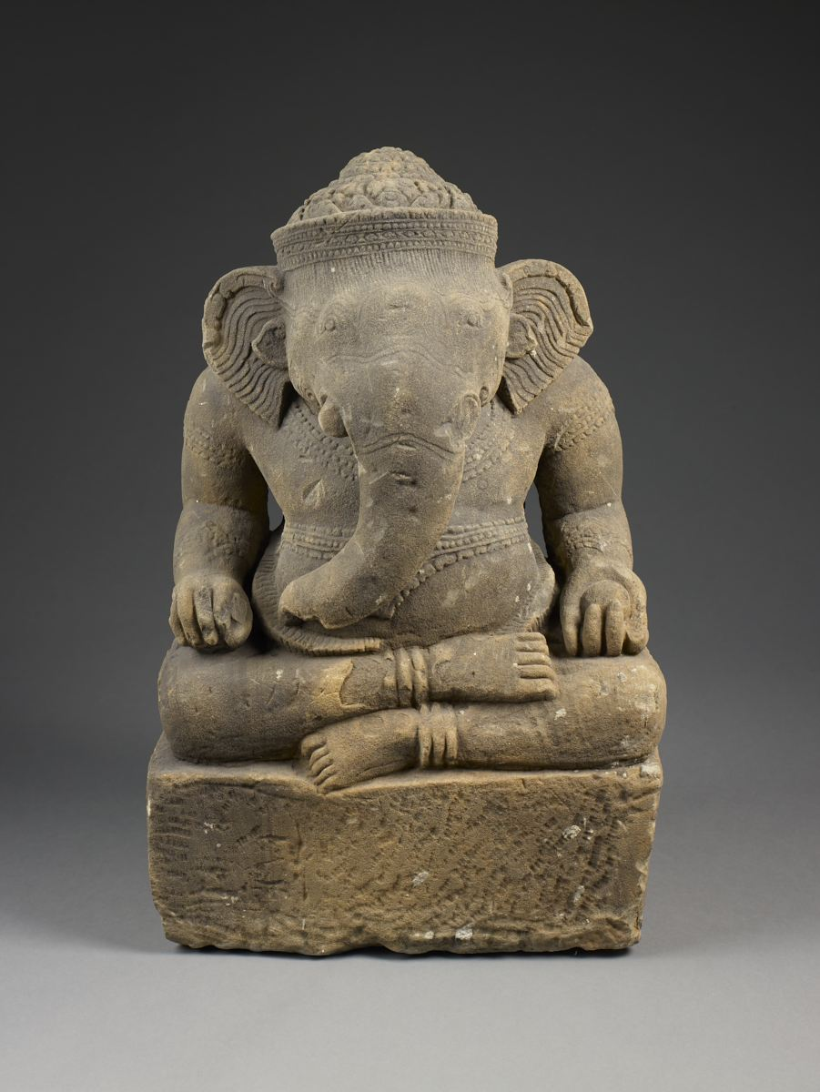 A sculpture of the Indian god Ganesha. Made in Cambodia in the Angkor style.